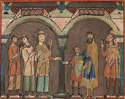 Liudger taken by his parents to the school in Utrecht